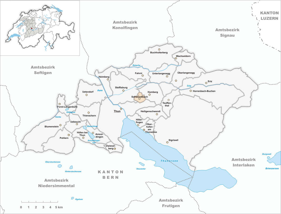 Municipality Schwendibach